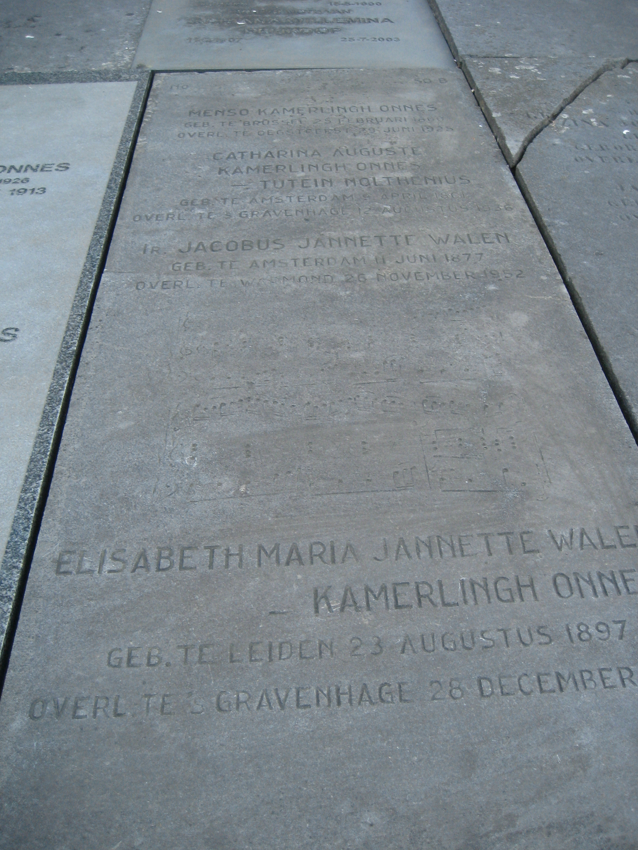 Graveyard, Dorpskerk Voorschoten, The Netherlands. Menso Kamerlingh Onnes